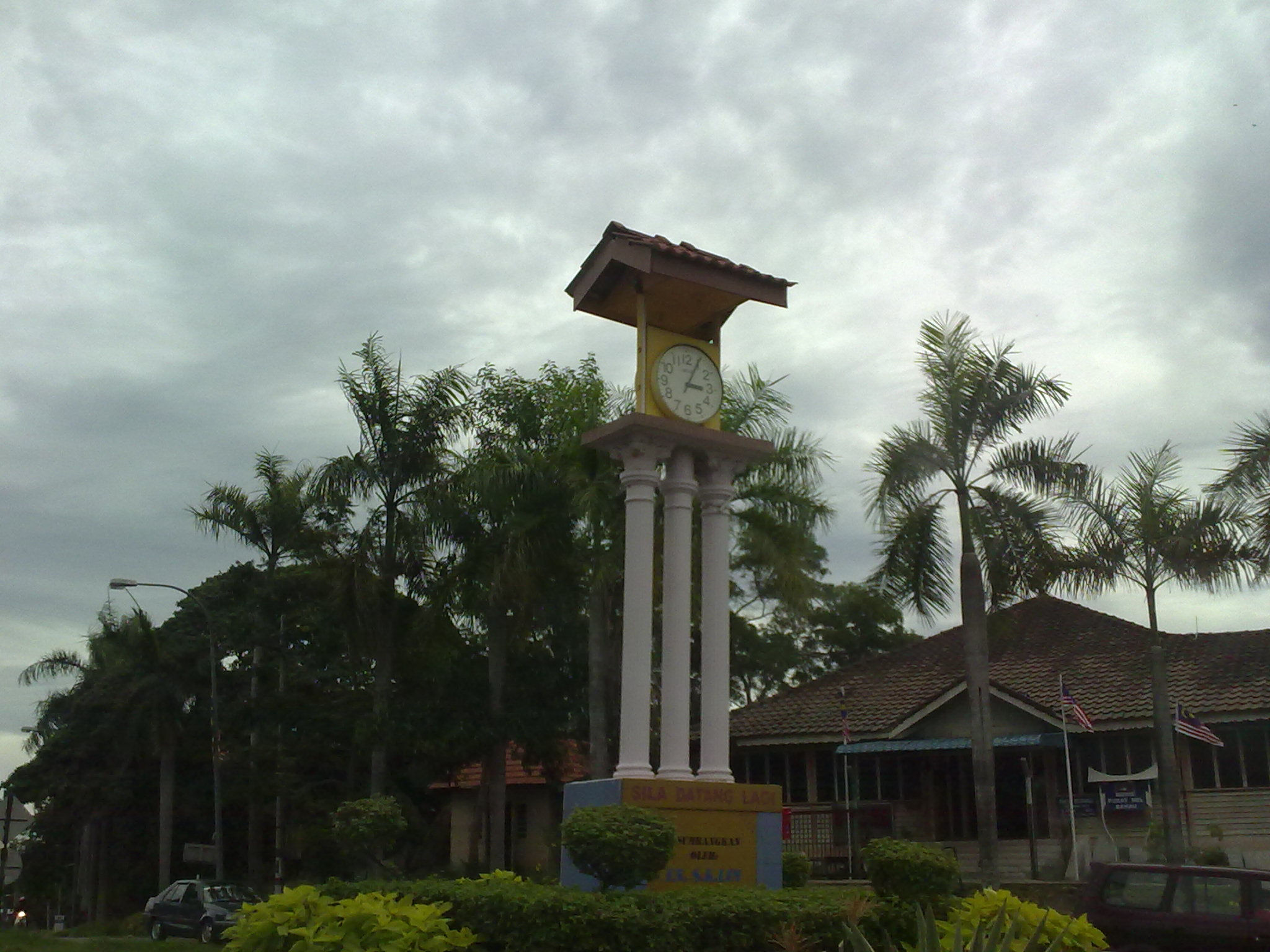 Menara Jam Bahau